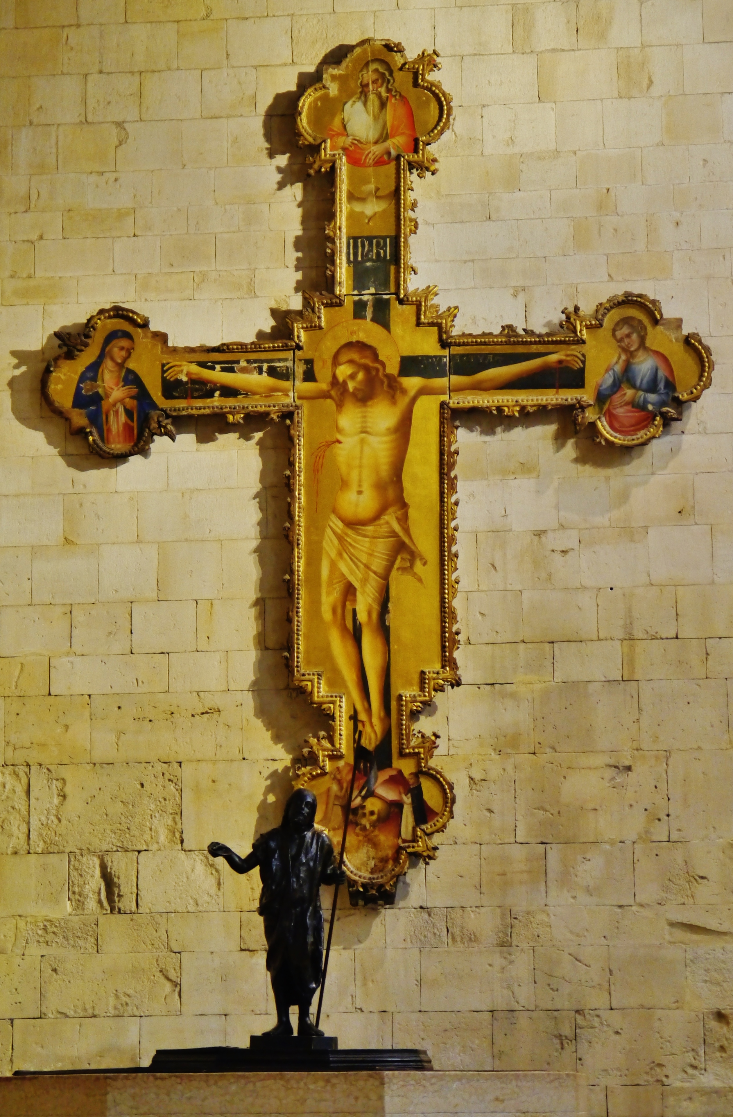 Cross at the Nave of the Basilica St. Zeno, Verona, Province of Verona, Region of Veneto, Italy